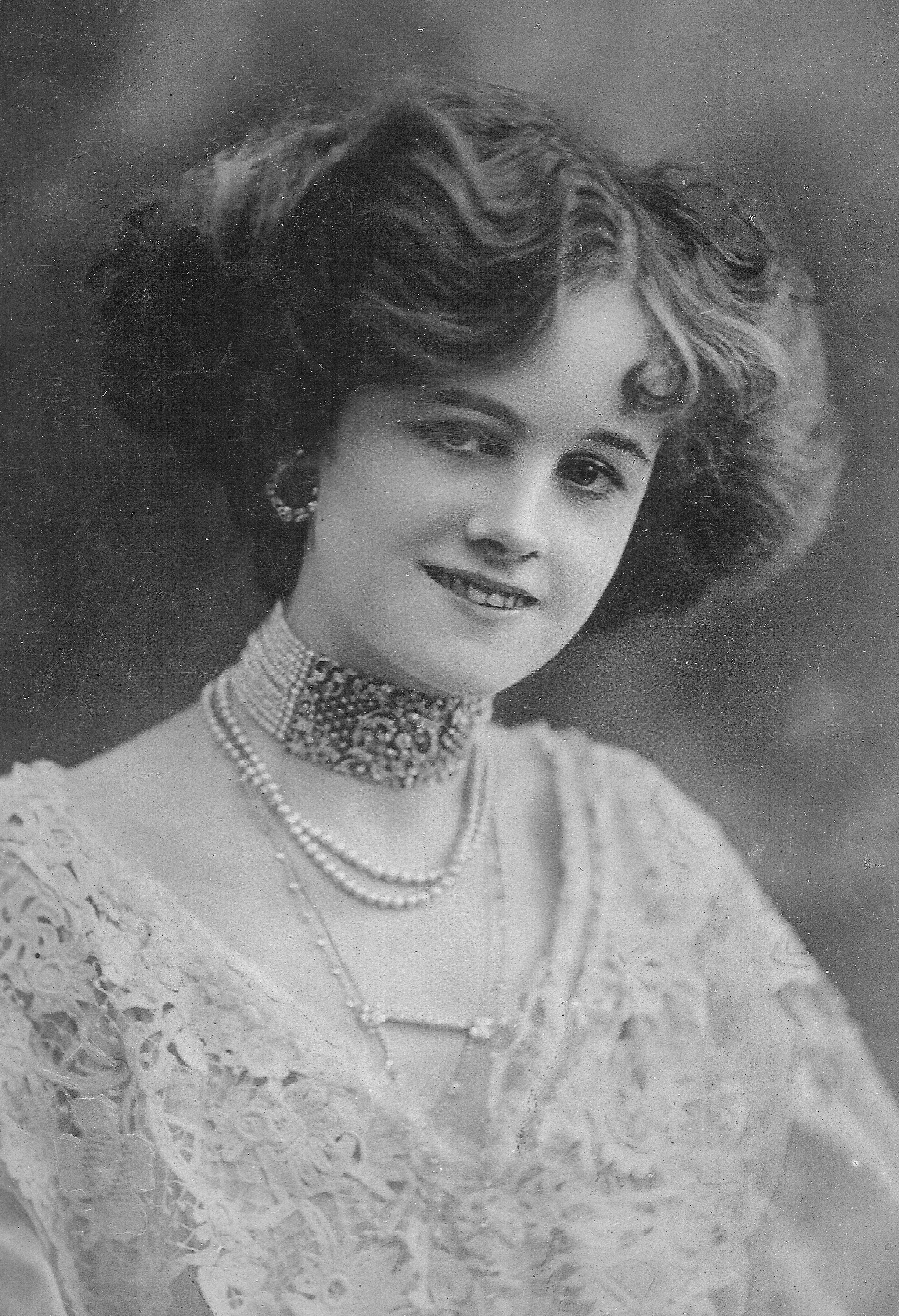 Miss Gertie Millar.